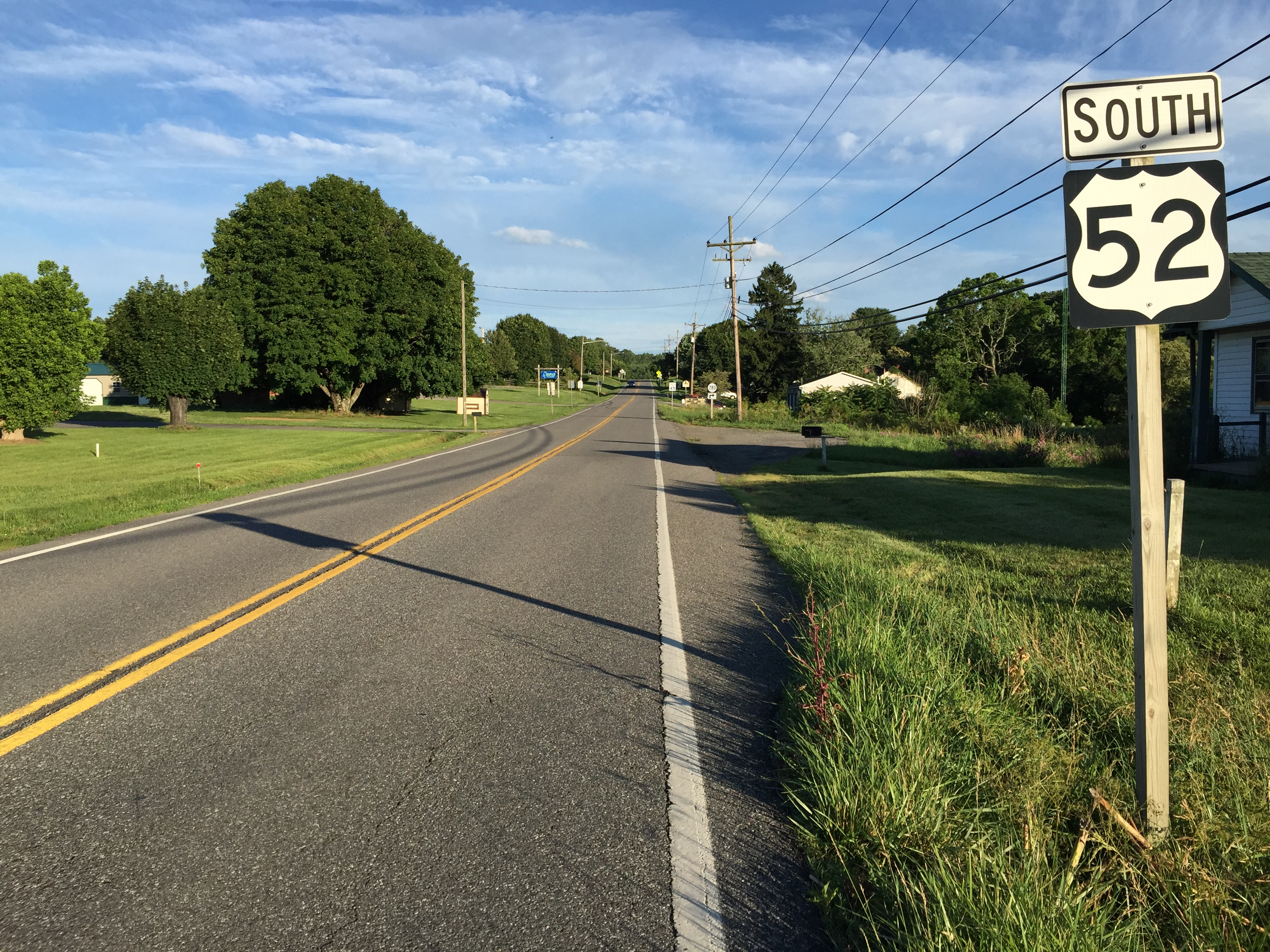 View south along U.S. Route 52 (Main Street) at Spruce Hollow Lane in Hillsville, Carroll County, Virginia